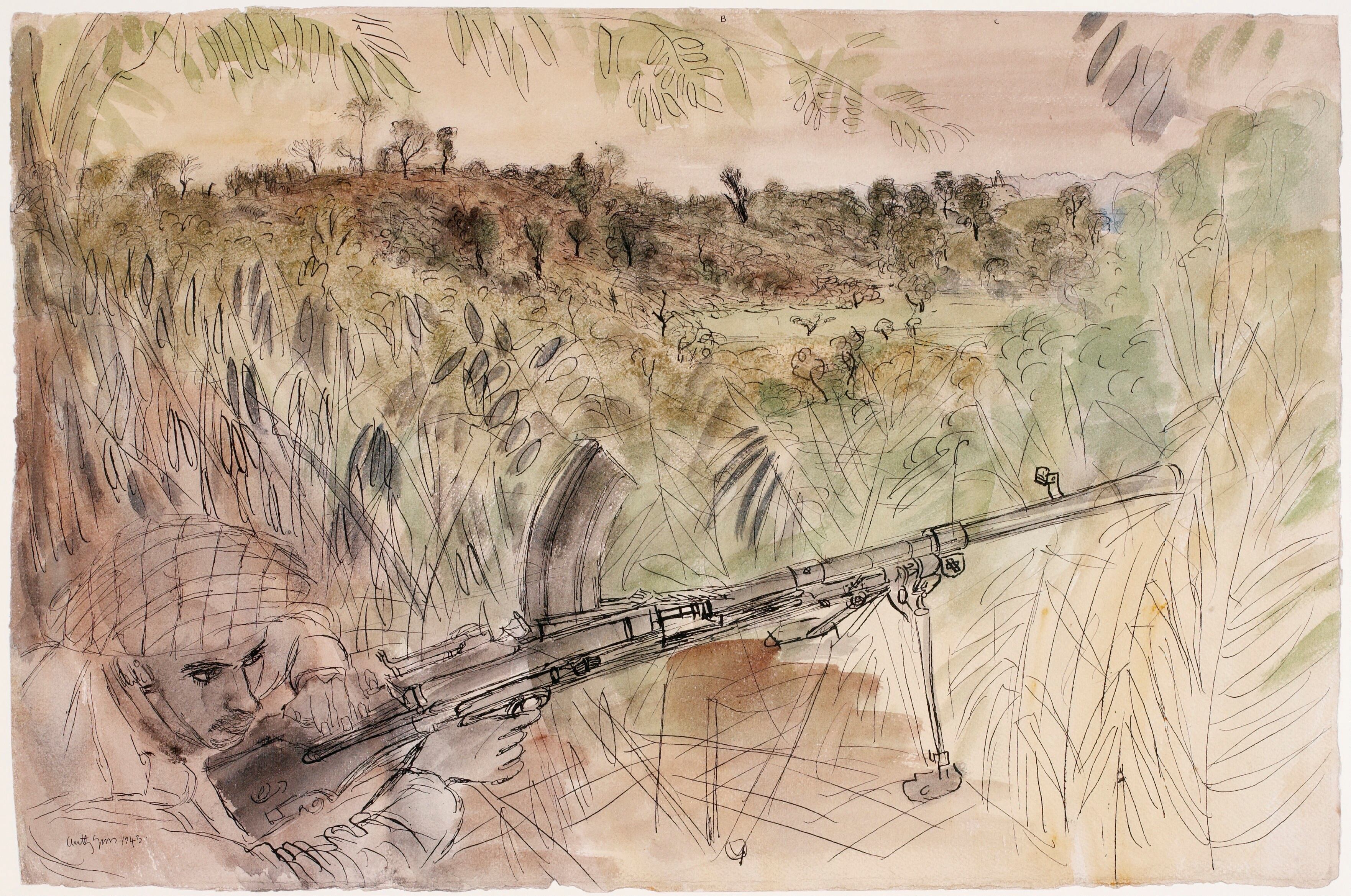 Battle of Arakan, 1943- Overlooking Japanese Positions at Rathedaung image: A soldier with a Bren machine gun, in a position overlooking wooded hills